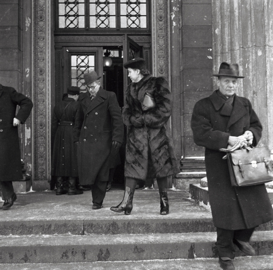 MP Hertta Kuusinen and member of the Impeachment Court Eino Pekkala (right) leave the House of Estates after the war-responsibility trials 16 November 1945.